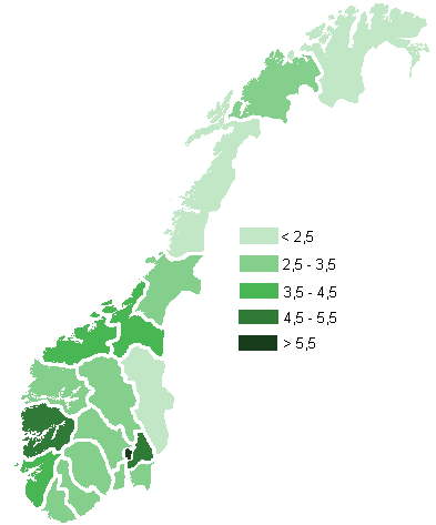 Map of the counties of Norway, showing the elections results for Venstre in the different counties at the parliamentary elections of 2009.